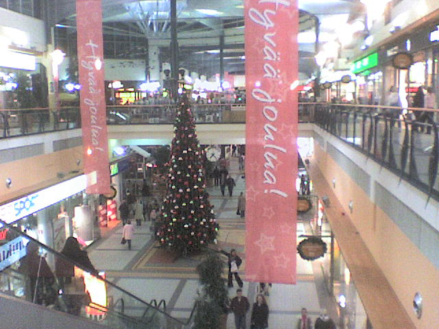 Mylly shopping mall in Raisio, Finland.